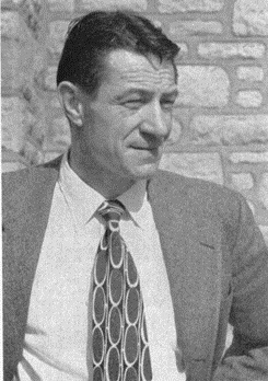 Photograph of Missouri basketball coach Wilbur Stalcup